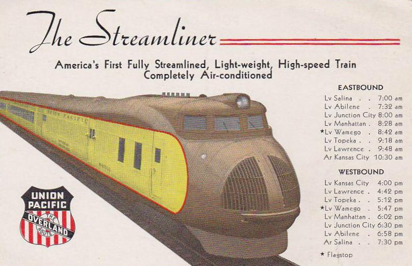 Postcard photo of the Union Pacific streamliner "City of Salina". The train was the first passenger streamliner in the United States. The postcard also gives the route and stops for the train, which traveled between Salina and Kansas City.